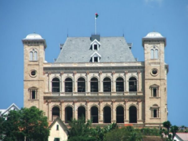 Rova showing Queen's Palace (Manjakamiadana) under construction in Antananarivo, Madagascar as of January 2010.